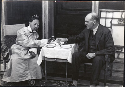 Basil Gould and the Tibetan Prime Minister, Lonchen Langdun, sitting at a small table with a white tablecloth in the Dekyi Lingka when the Prime Minister came to lunch